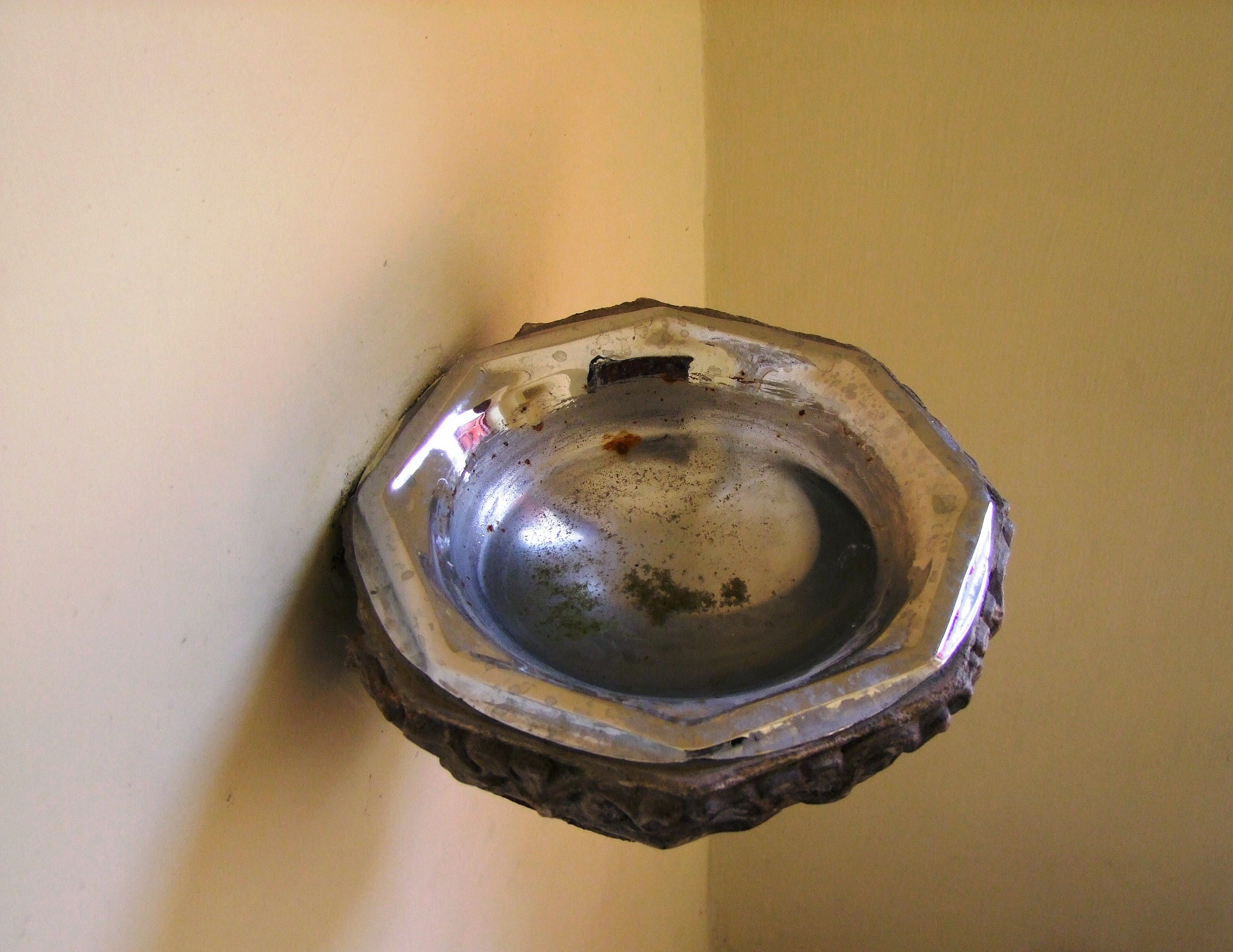 Stoup in Saint Michael the Archangel church in Uraz